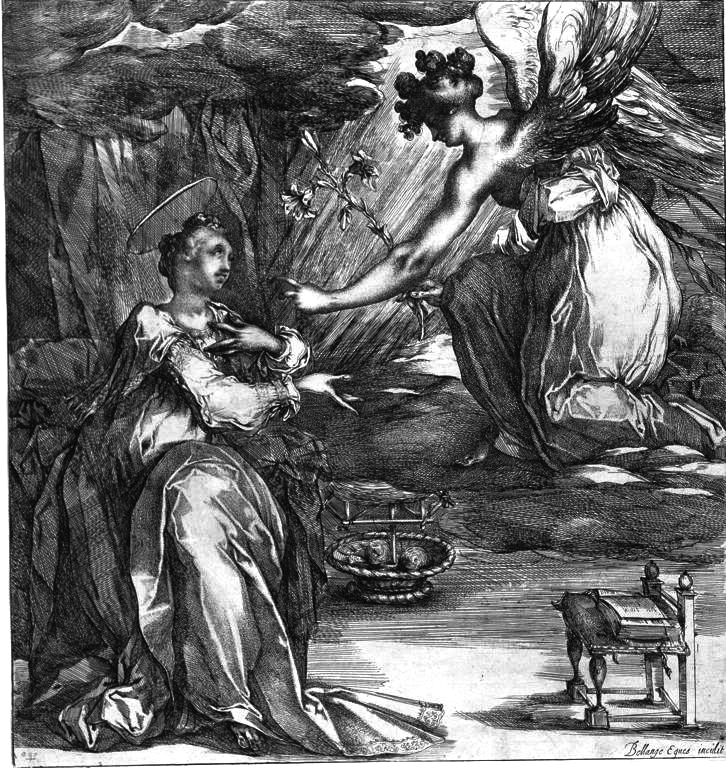 The Annunciation, 1615-16 Etching, touched with burin printed in black, on off white laid paper 335 x 317 mm (image/sheet) Prints and Drawings Purchase Fund, 1950.1469 Duplessis I